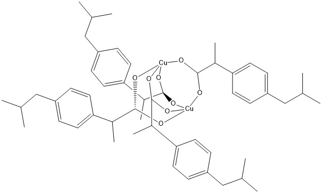 Copper Ibuprofenate